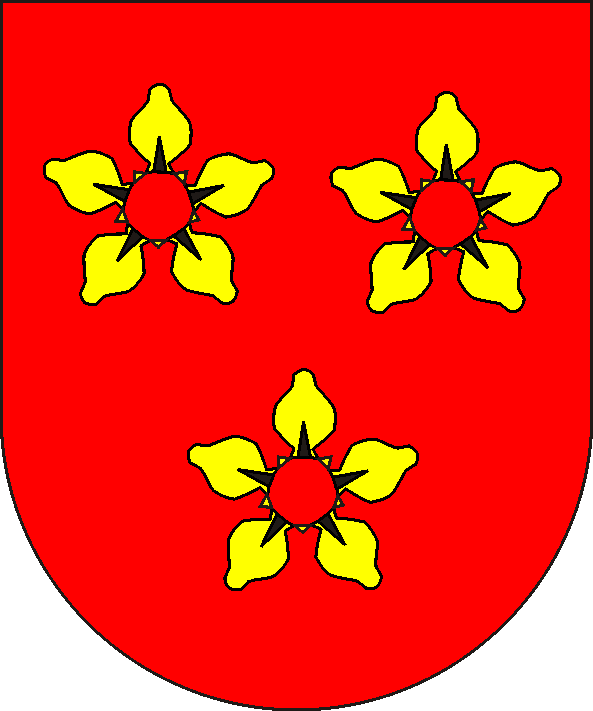 Coat of arms duchy of Arenberg